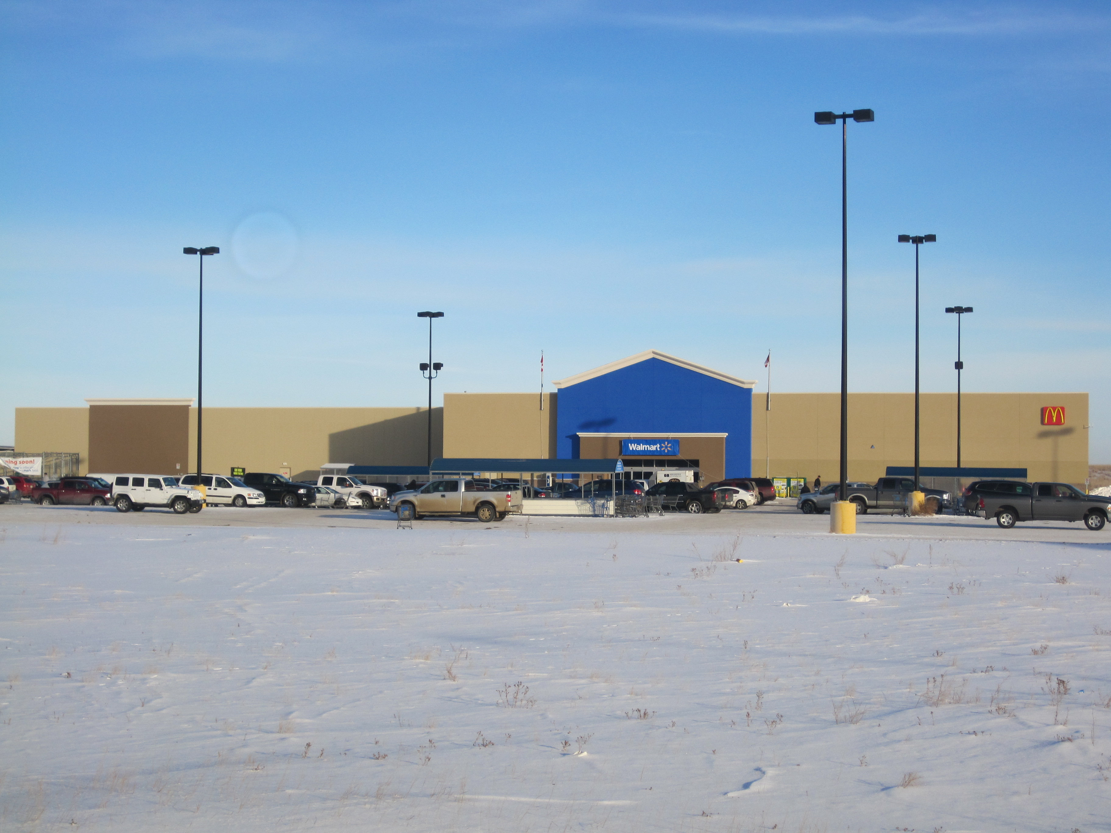 The Walmart store in Estevan, SK